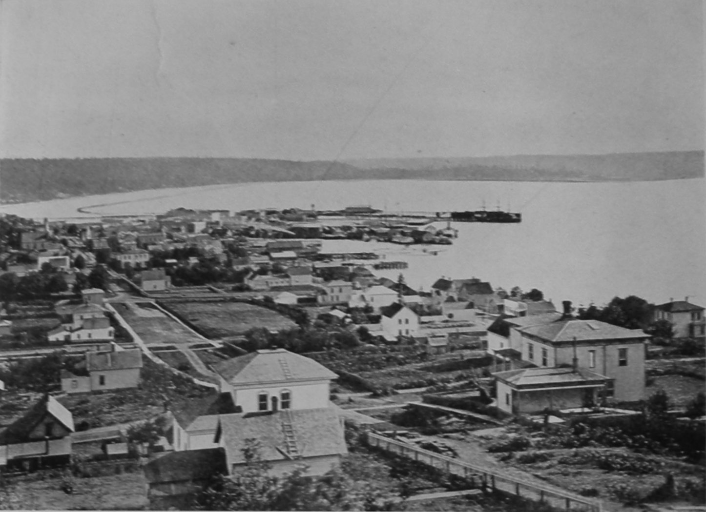 Second Avenue, Seattle, Washington, looking south from Pine Street. Note the wide bay at the foot of Beacon Hill; that now filled in as the Sodo neighborhood.